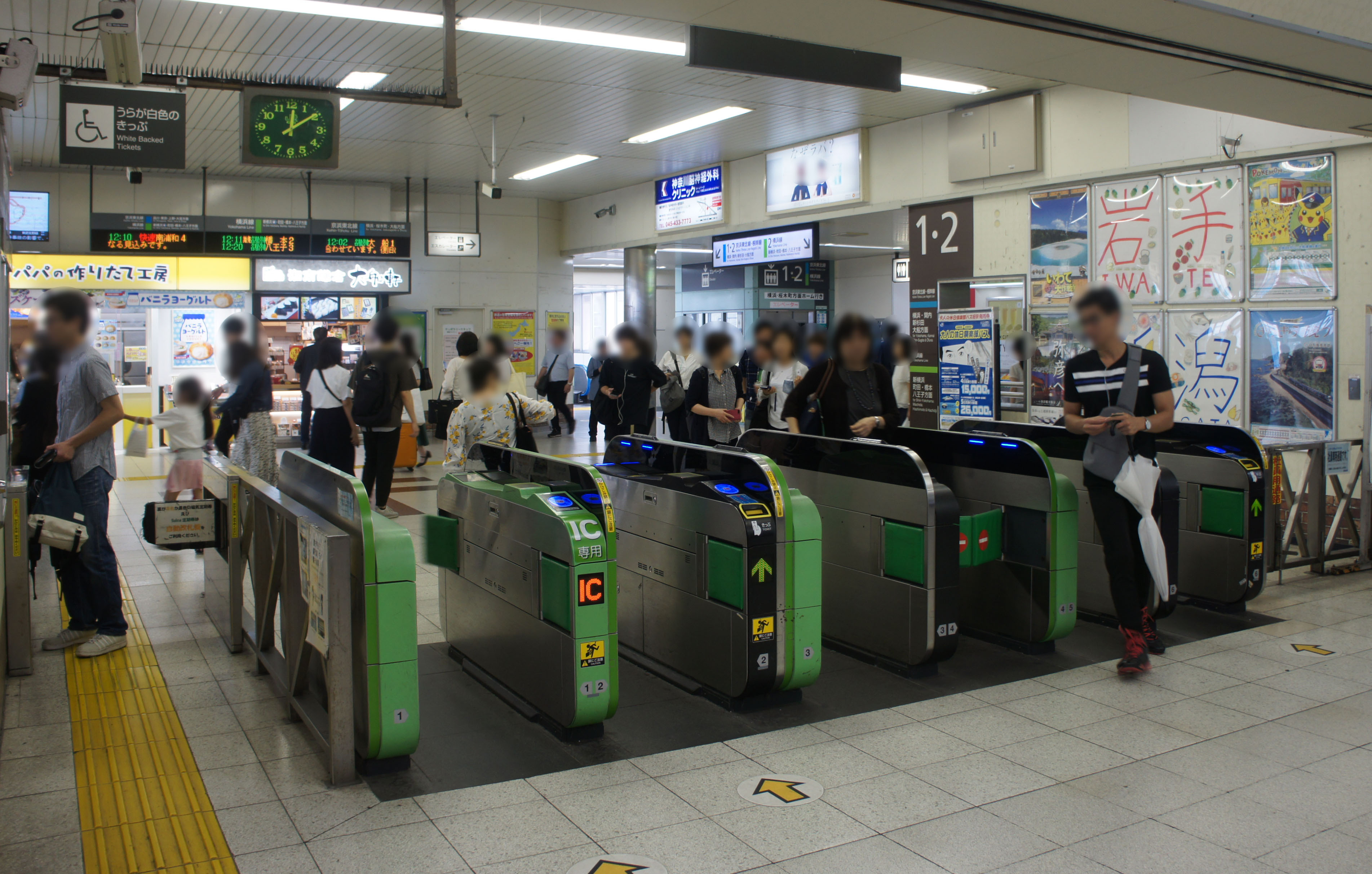 Gates of JR Higashi-Kanagawa Station